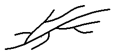 LowDensityPolyethlene02